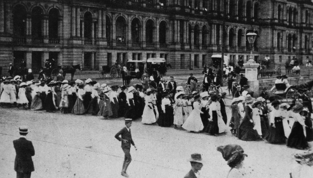 Women marching in a strike procession in Brisbane in 1912 Women unionists marching towards the north entrance to the Victoria Bridge during the General Strike of 1912. The Treasury building is in the background.